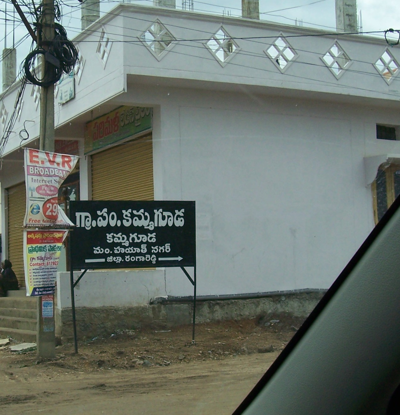 Kammaguda village